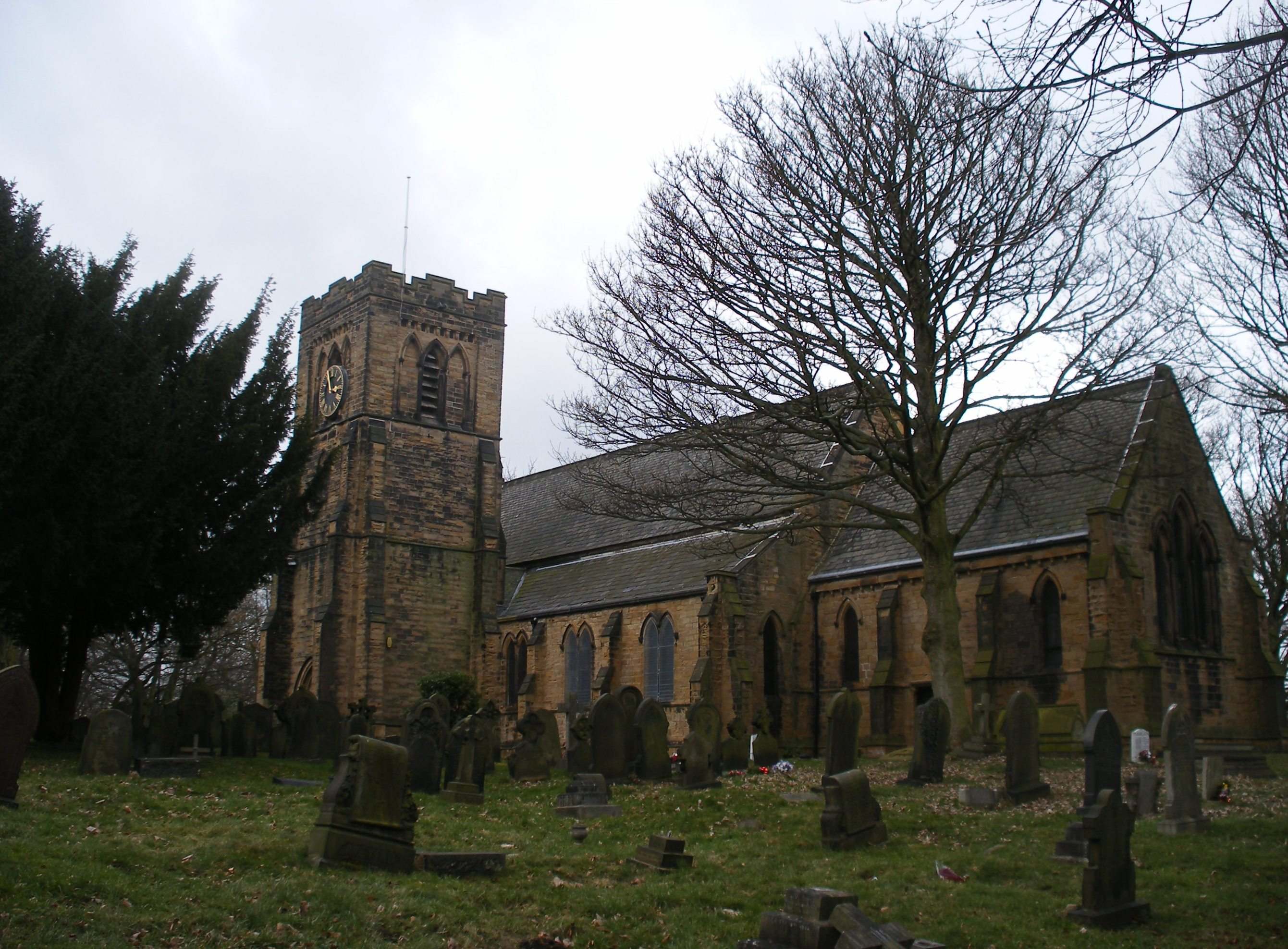 St Mary's Church in Middleton, Leeds, England. This church was built in 1847 with a spire. The spire was dismantled because of mining subsidence.